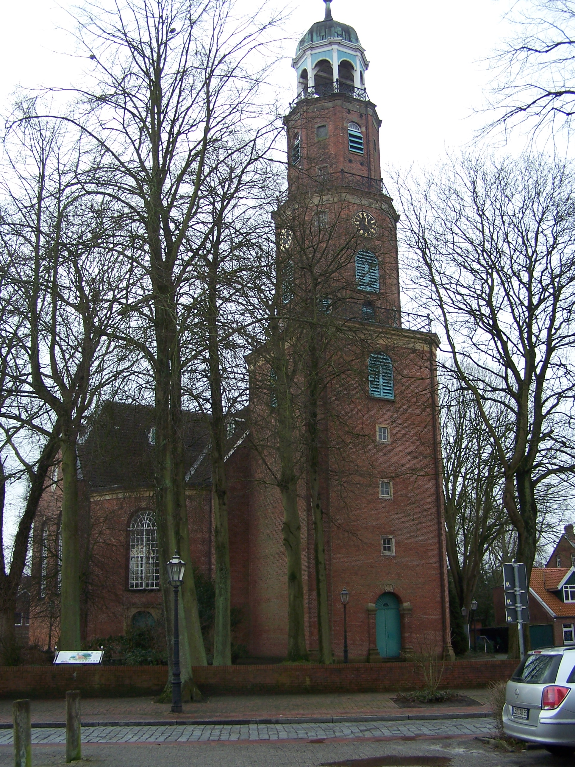 Church in Leer, Germany